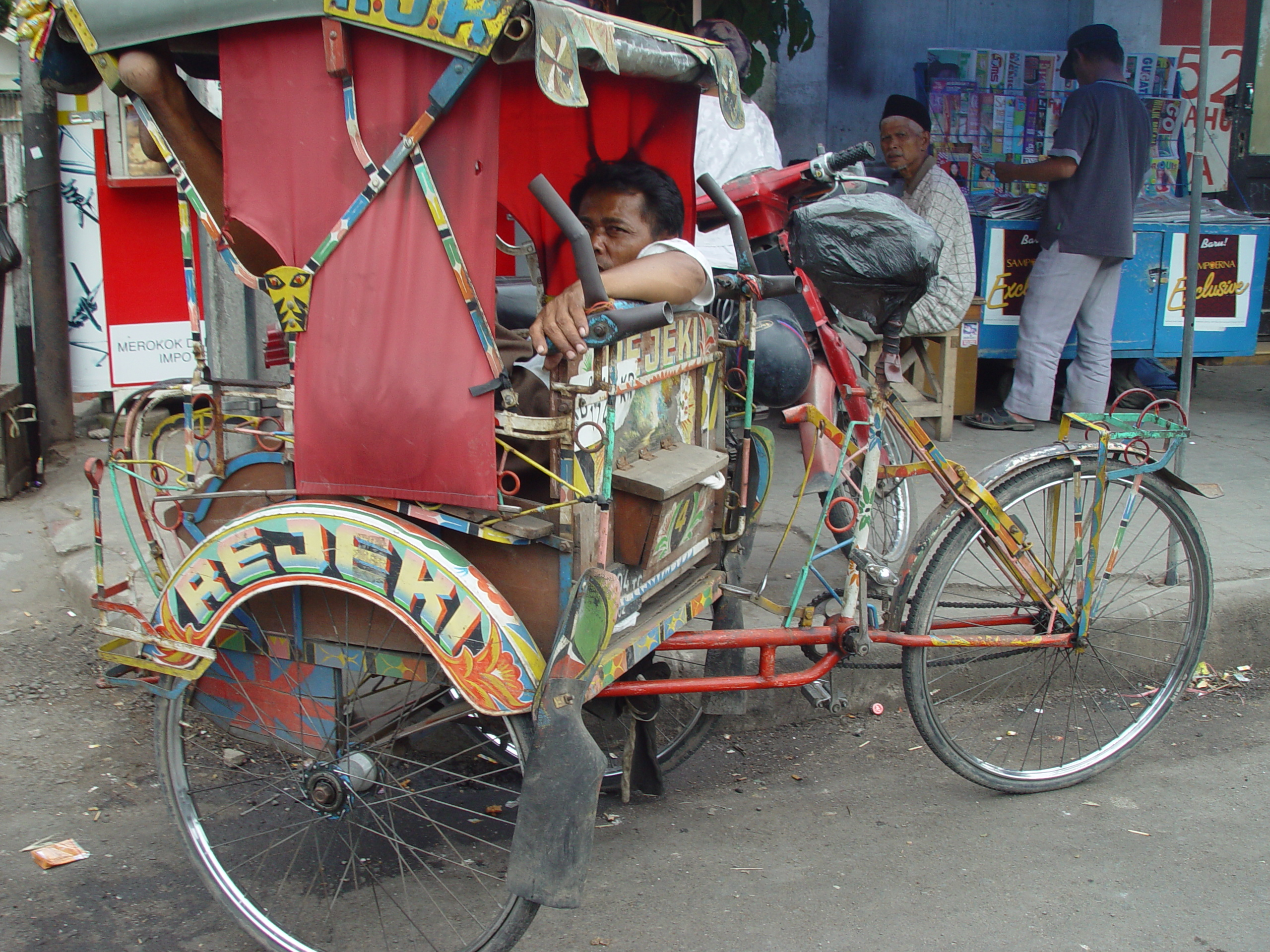 Becak and driver, Bandung Indonesia.